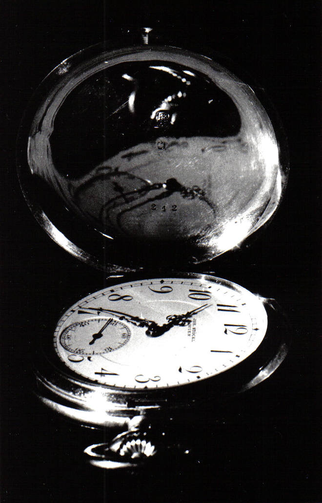 Pocket watch, appr. 1900